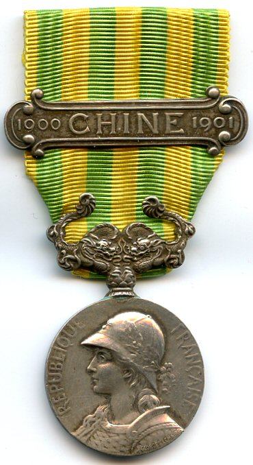 1900-1901 China campaign medal (France) obverse